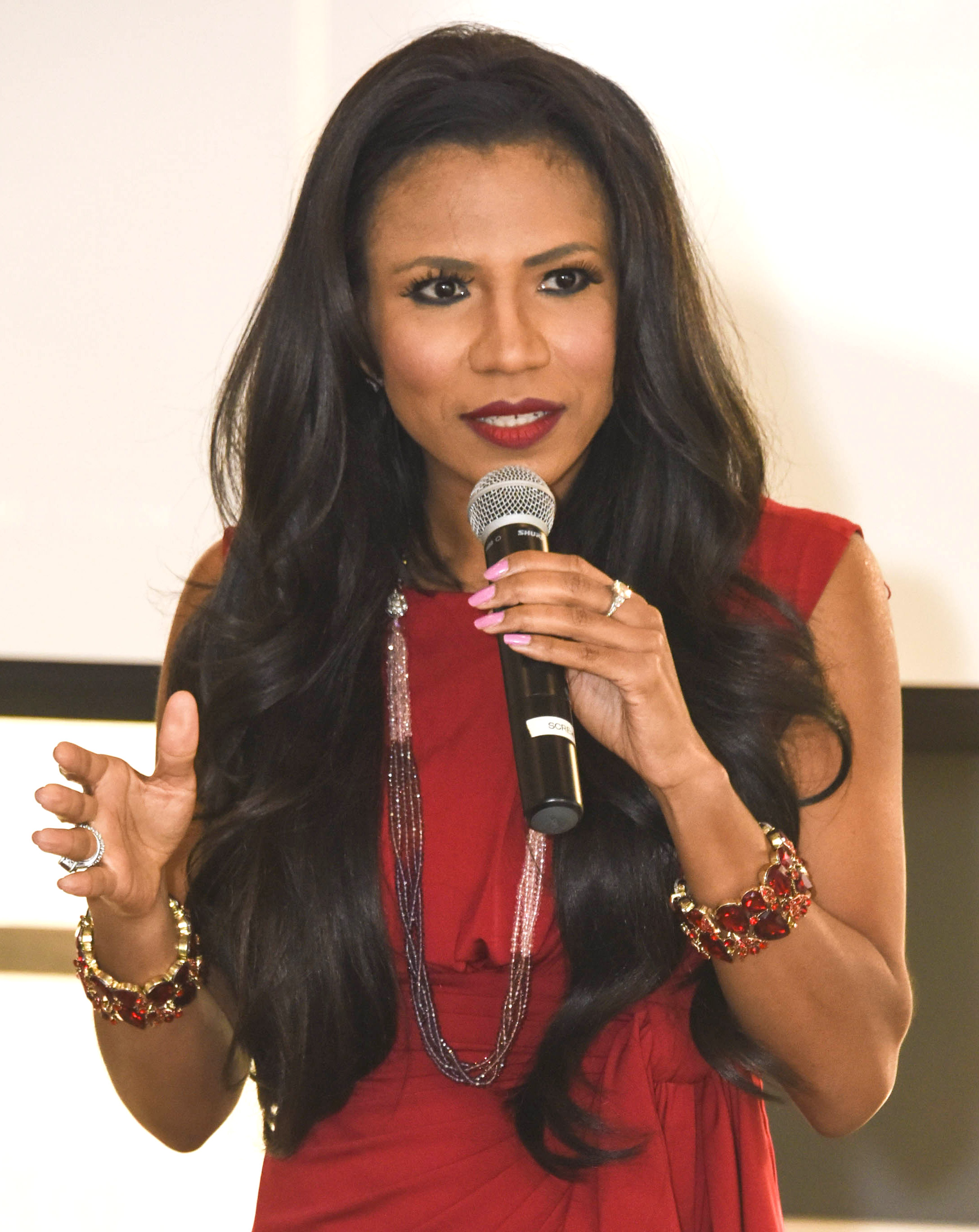 Olympia LePoint in 2018